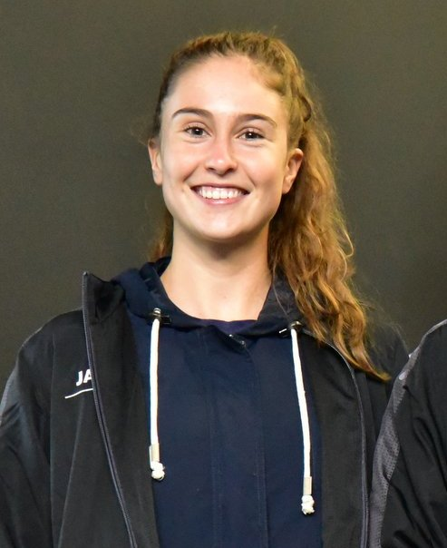 Nele Gilis at the Individual European Squash Championships 2017